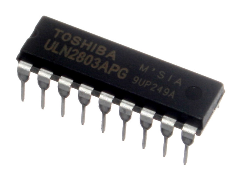 ULN2803A 8 channels Darlington sink driver.